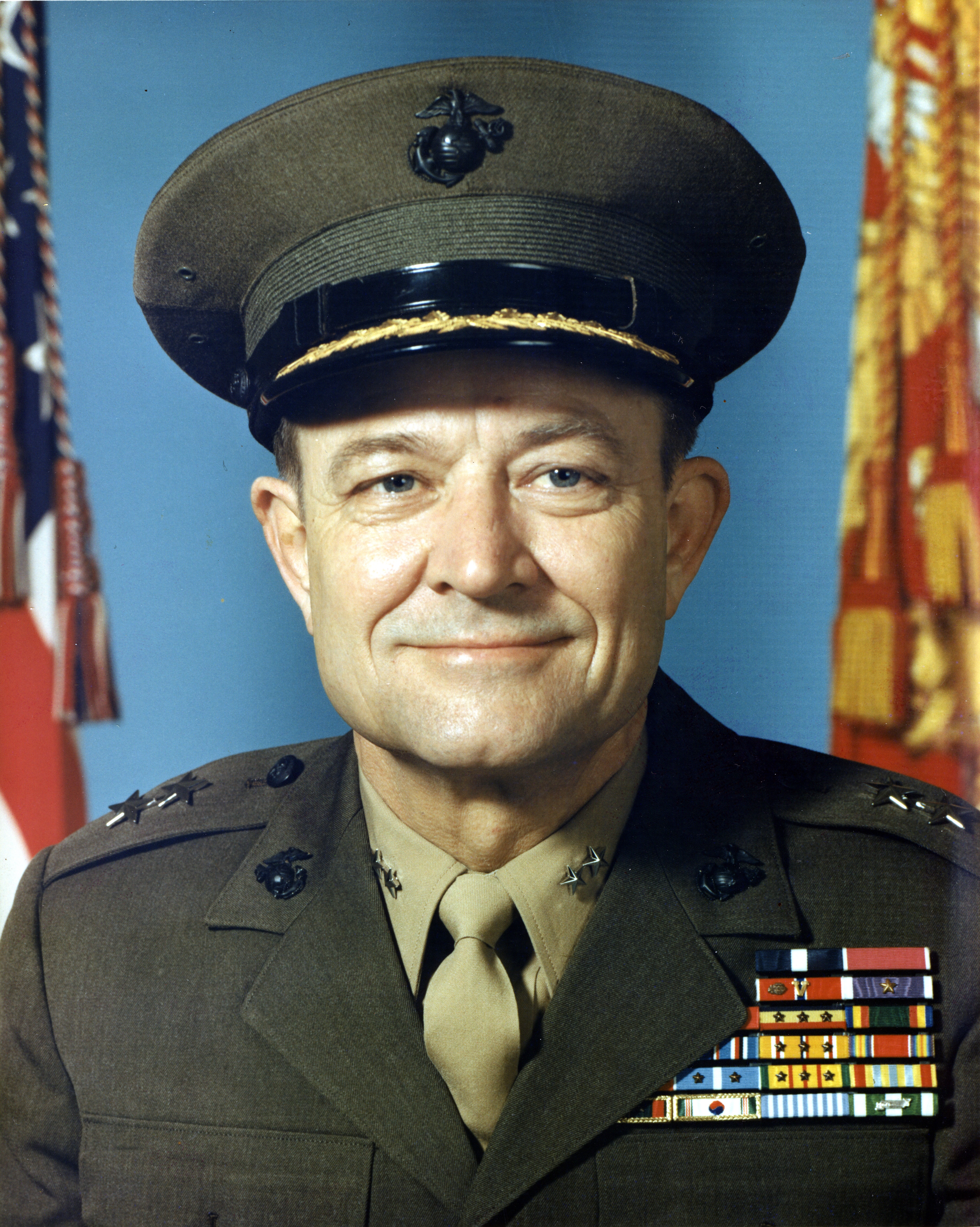 Charles Davis Mize (December 4, 1921 - December 10, 1998) was a highly decorated officer of the United States Marine Corps with the rank of Major General. He was decorated with Navy Cross, the United States military's second-highest decoration awarded for valor in combat, during Korean War. Mize completed his career as Commanding general, 1st Marine Division. His son, David M. Mize, also served in the Marines and reached the rank of Major general.